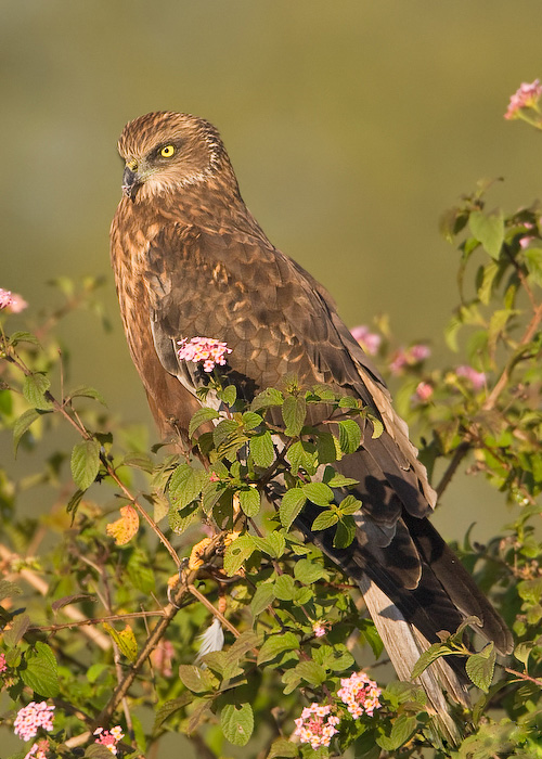 Western Marsh Harrier : Circus aeruginosus Photograph by Subramanya CK at Bangalore, 2010. Contact